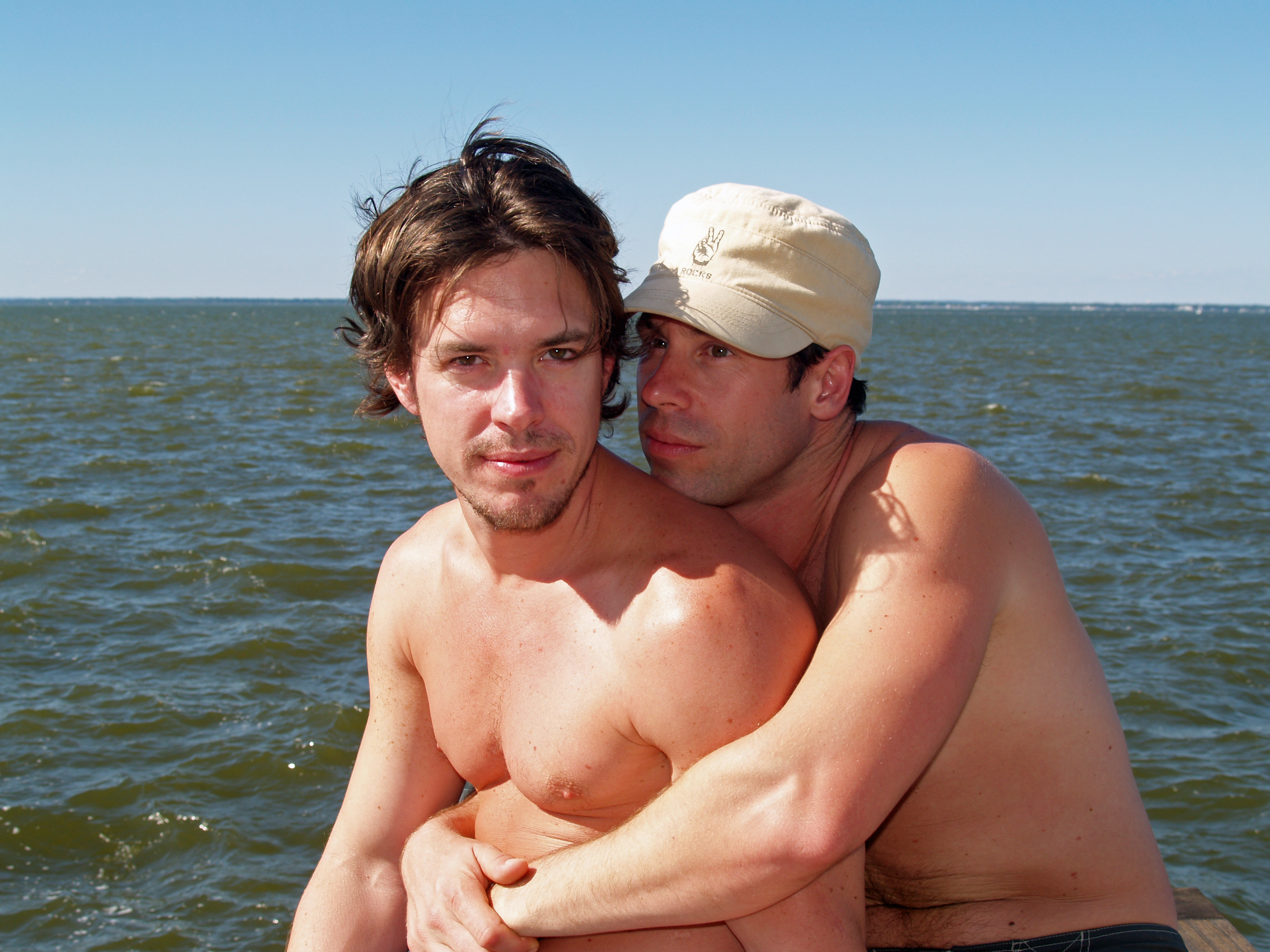 PJ DeBoy and Paul Dawson in August of 2008 on Fire Island at the home of Michael Lucas This photograph is dedicated to photography connoisseur .